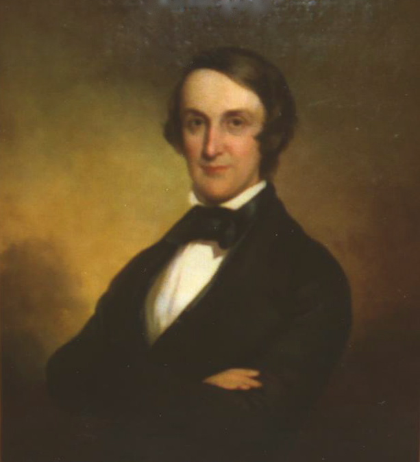 Thomas Marshall Howe as a young man.